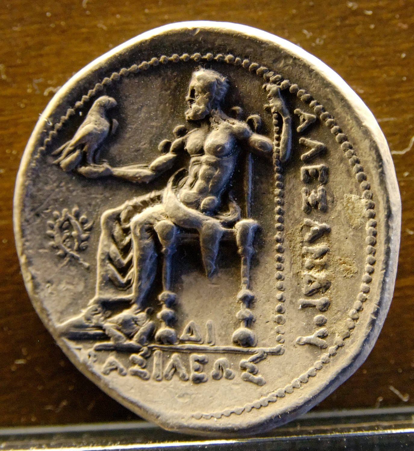 Zeus seated left on throne, holding eagle in extended right and scepter in left. Reverse of a silver tetradrachm, reign of Alexander the Great.